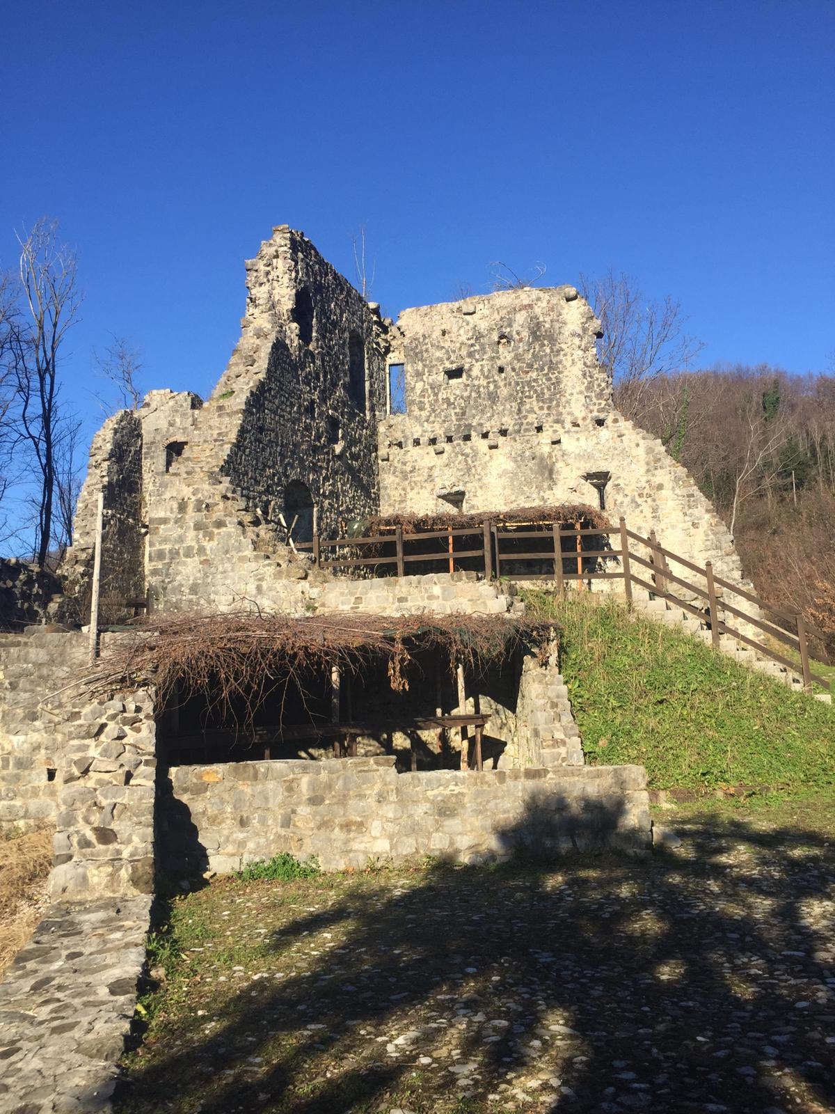 Cergneu